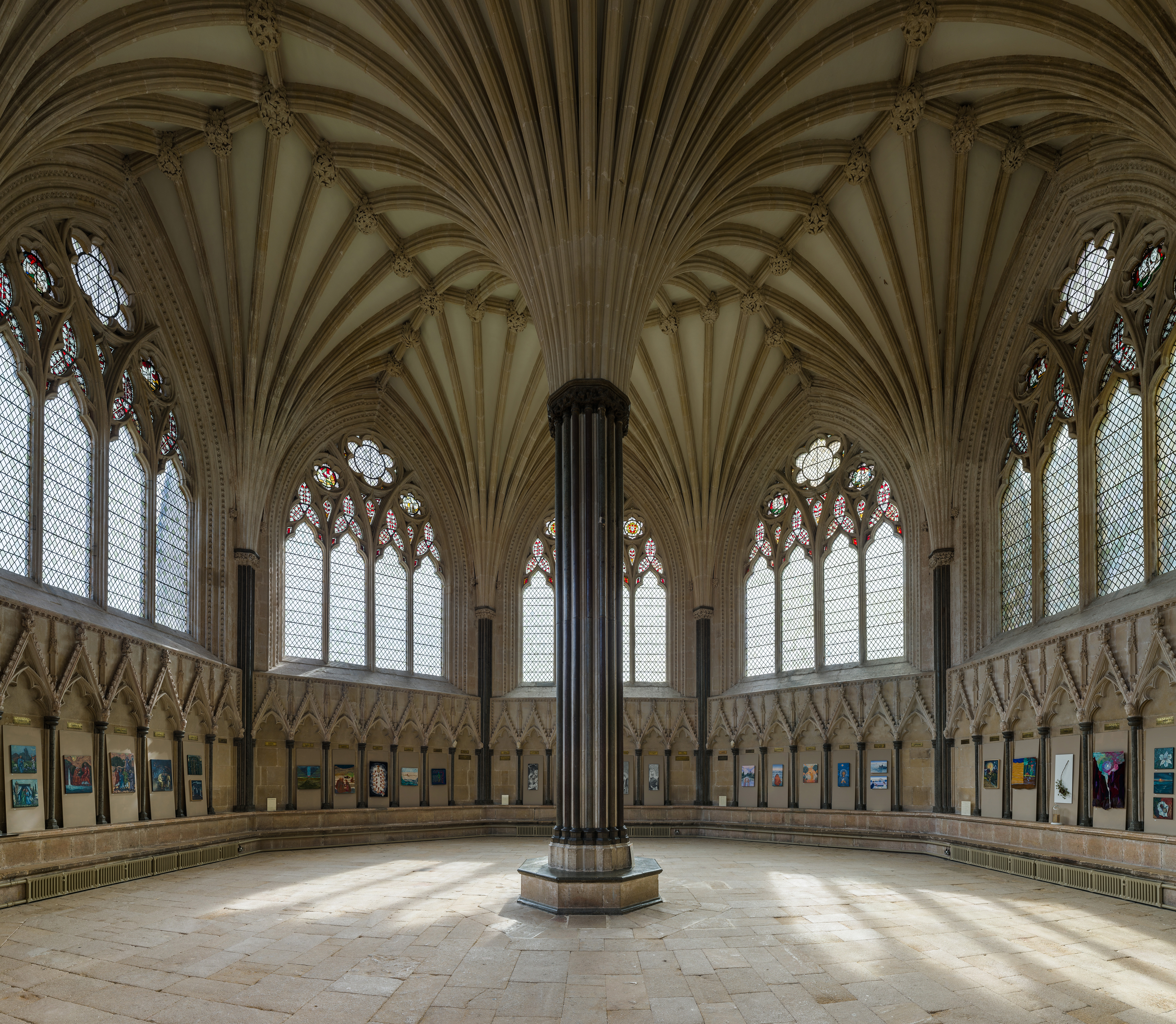 The Chapter House of Wells Cathedral in Somerset, England.